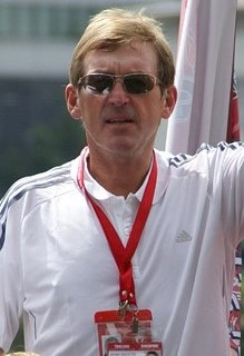 Kenny Dalglish from LFC boat tour @ Singapore river